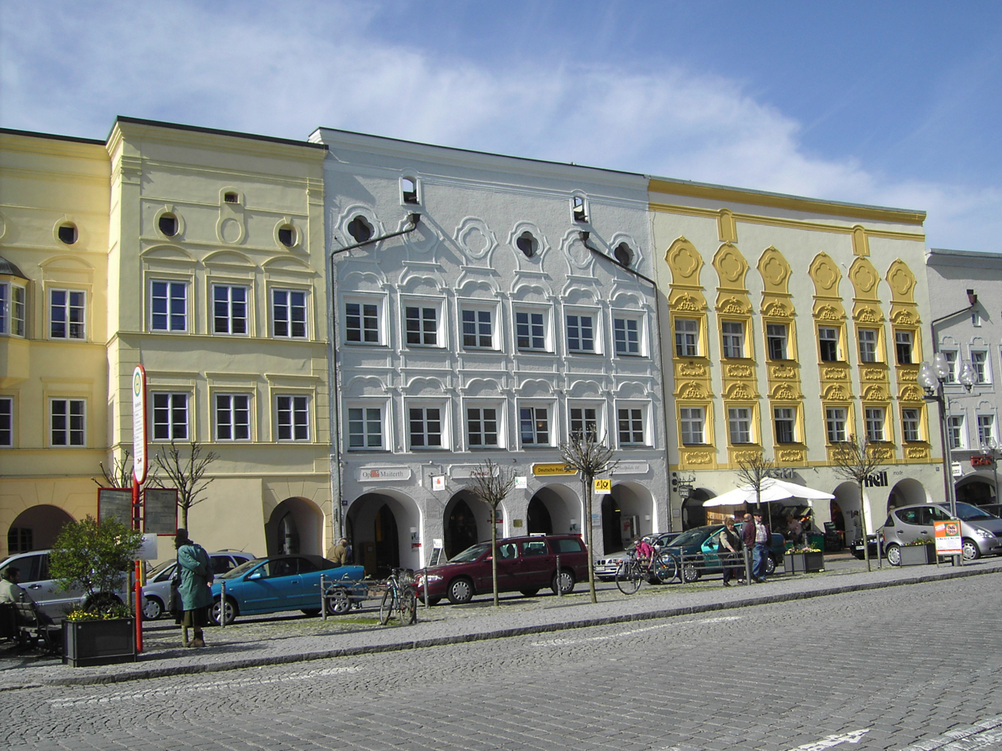 Mühldorf am Inn, houses Stadtplatz No. 48 (former administration building of the Amt Mühldorf, now land registry office), 46a and 46b (from left to right).